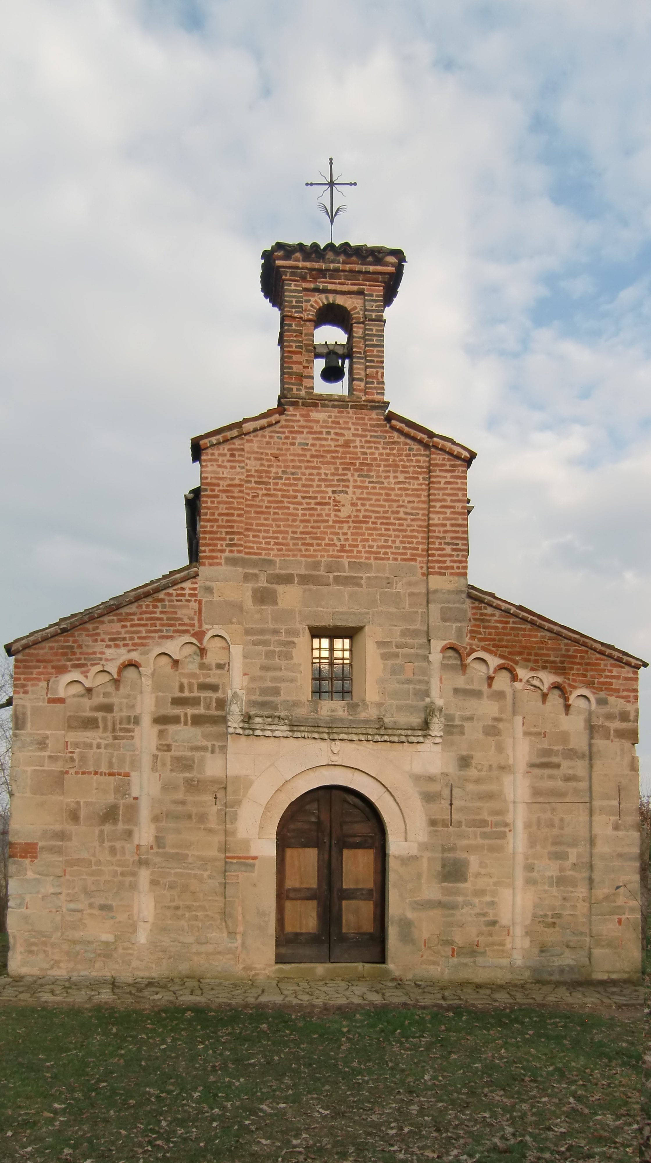 Chiesa di San Secondo, Cortazzone (AT), Italy, romanesque church, XII century